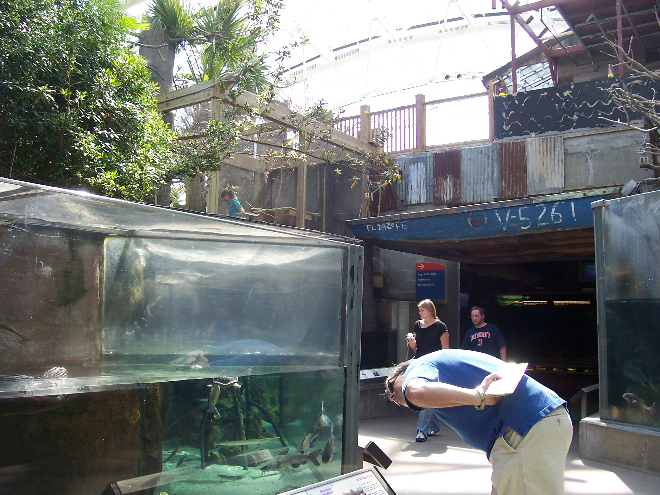 Inside the atrium of the Florida Aquarium in Tampa.